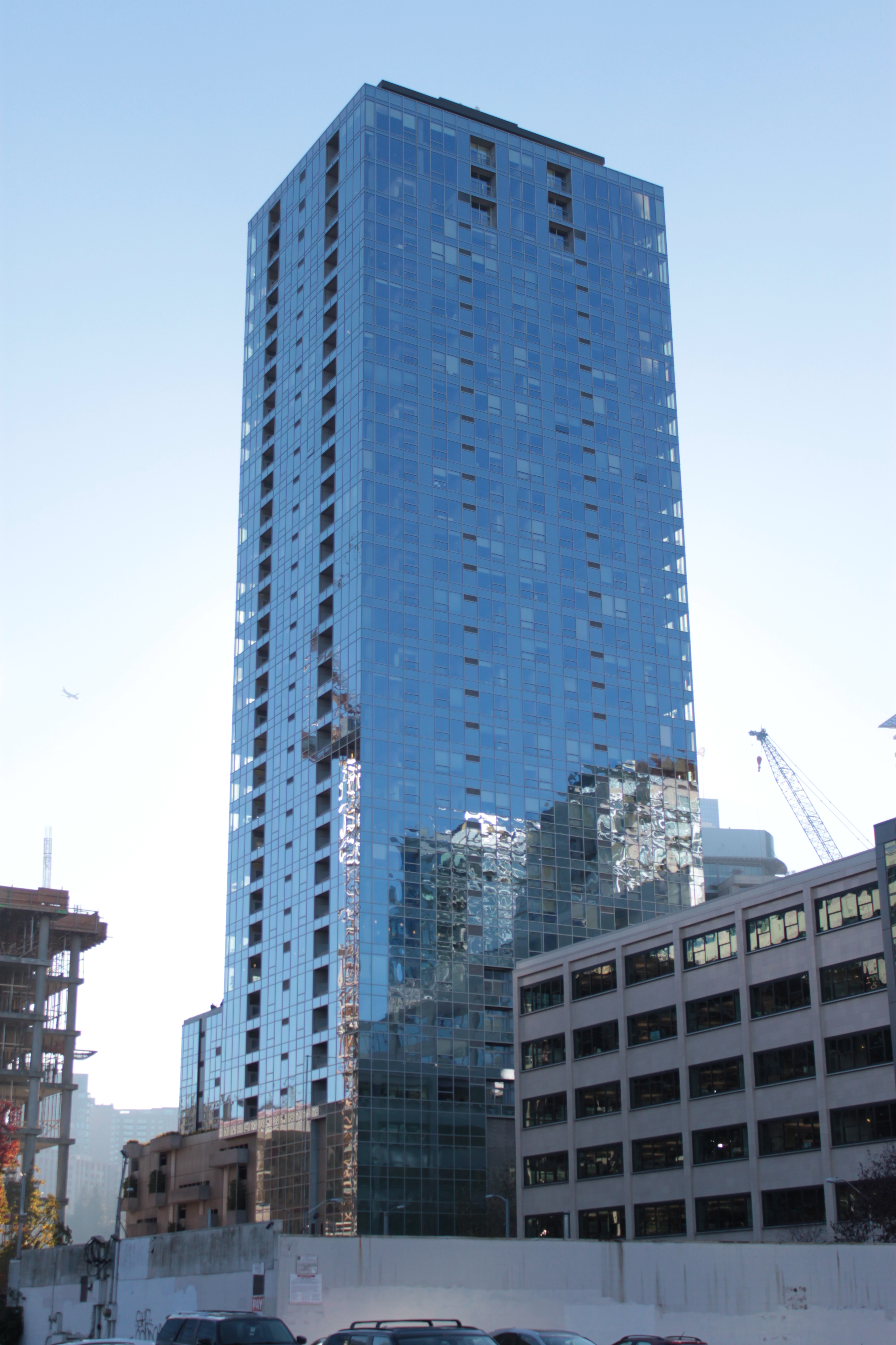 A 37-story apartment building completed in 2009.